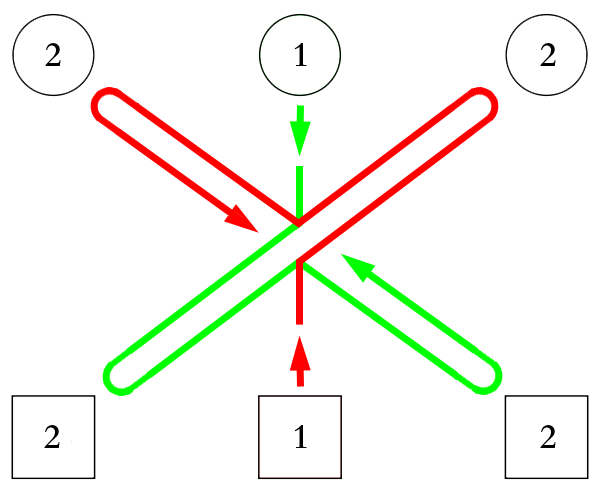 The contra dance figure "contra corners" (see also Image:Contra_corners.svg)